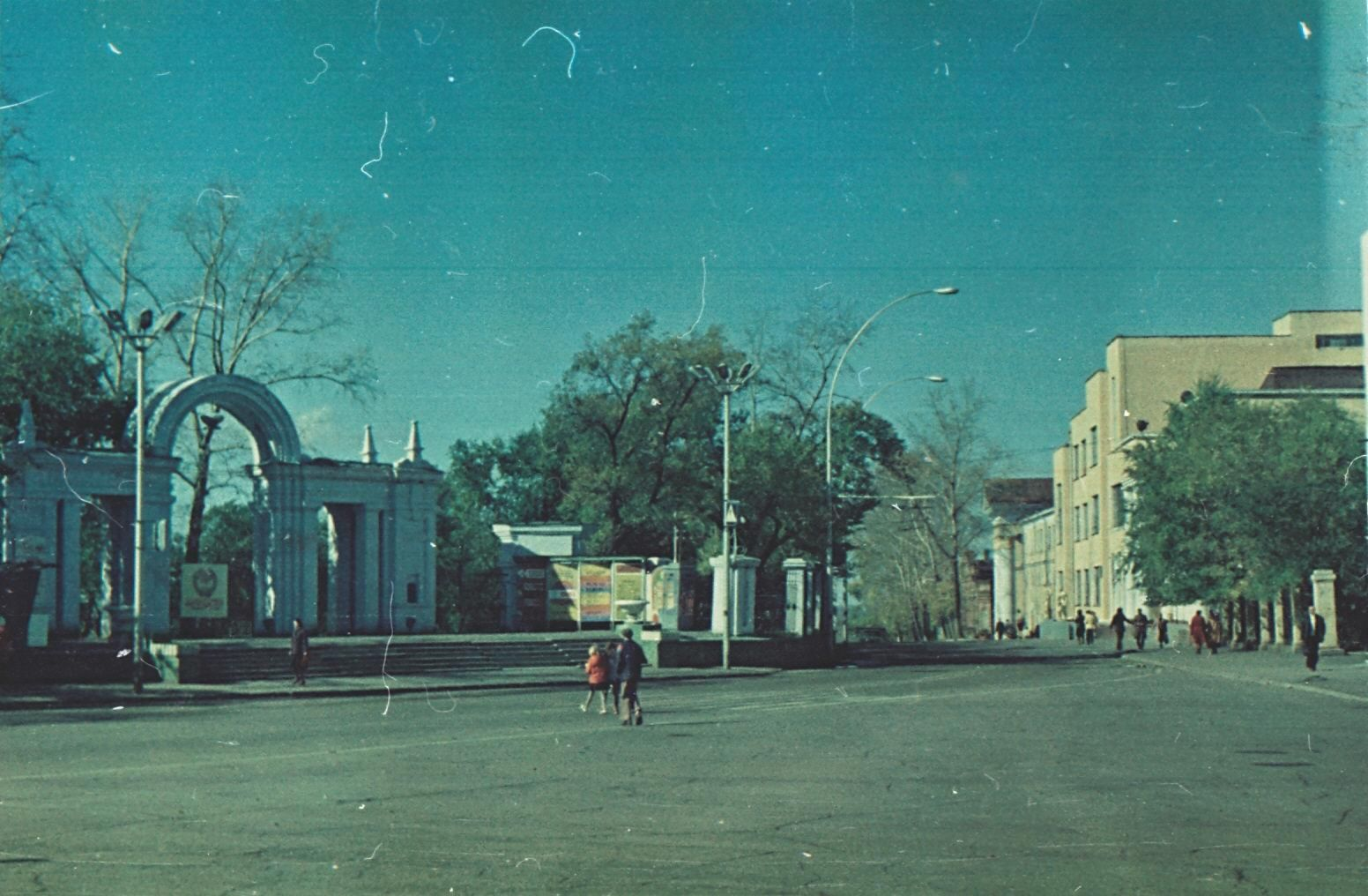 Historical images of Khabarovsk